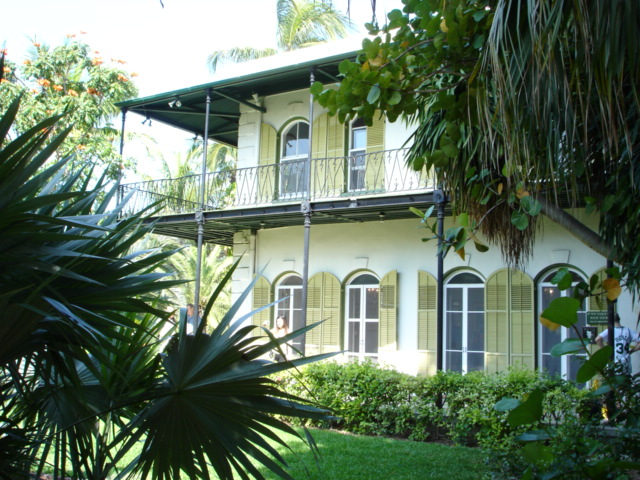 Ernest Hemingway house, Key West, Florida, USA